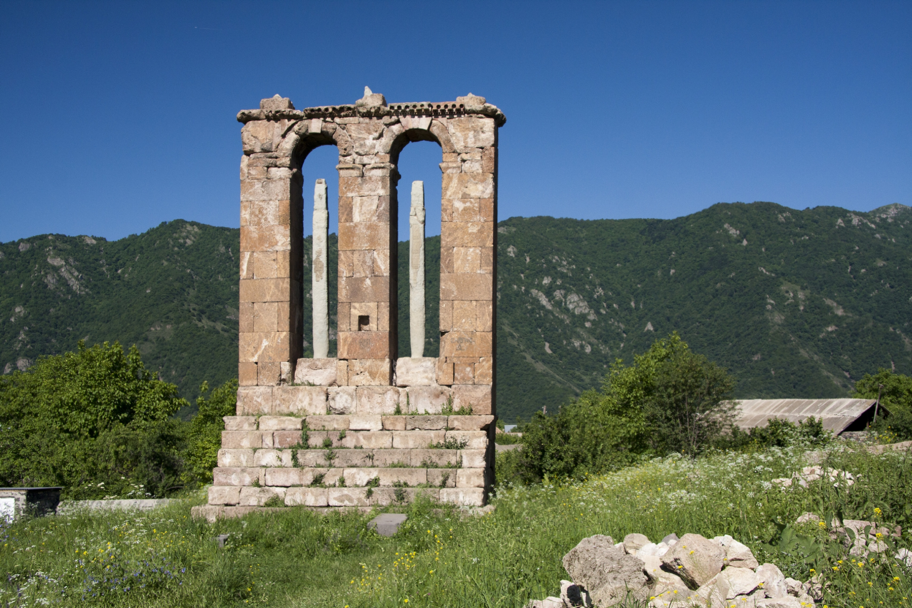 ՕՁՈՒՆԻ ՏԱՃԱՐ, ՍԲ. ՀՈՎ-ՀԱՆՆԵՍ ԵԿԵՂԵՑԻ, ԽԱՉԳՈՒՆԴ ՎԱՆՔ 112/5